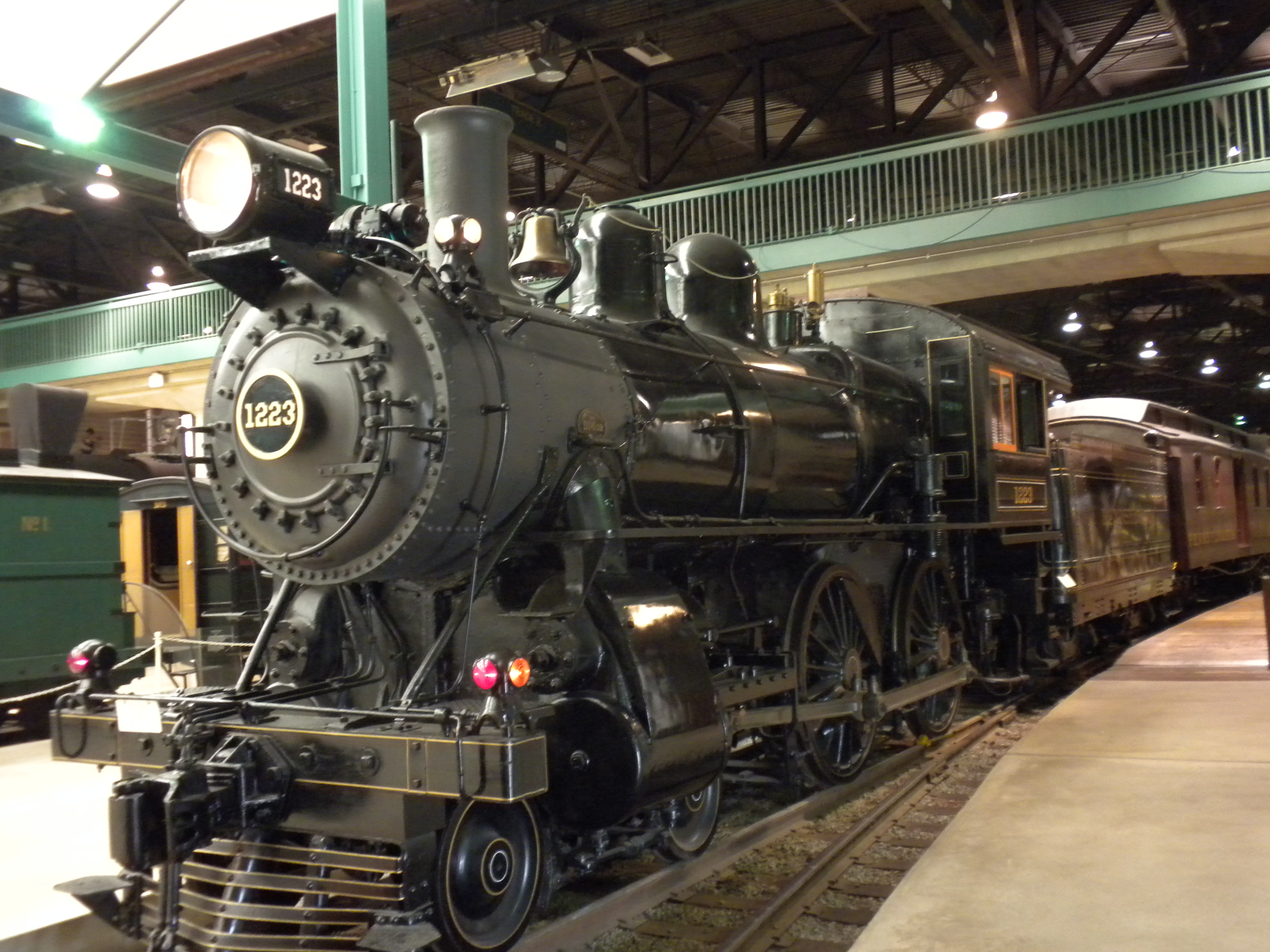 PRR steam locomotive No. 1223 in the Railroad Museum of Pennsylvania, east of Strasburg, PA. On NRHP since 1979. Built 1905 in Juniata shop, type 4-4-0. PRR class D16sb. Rare "American"-type